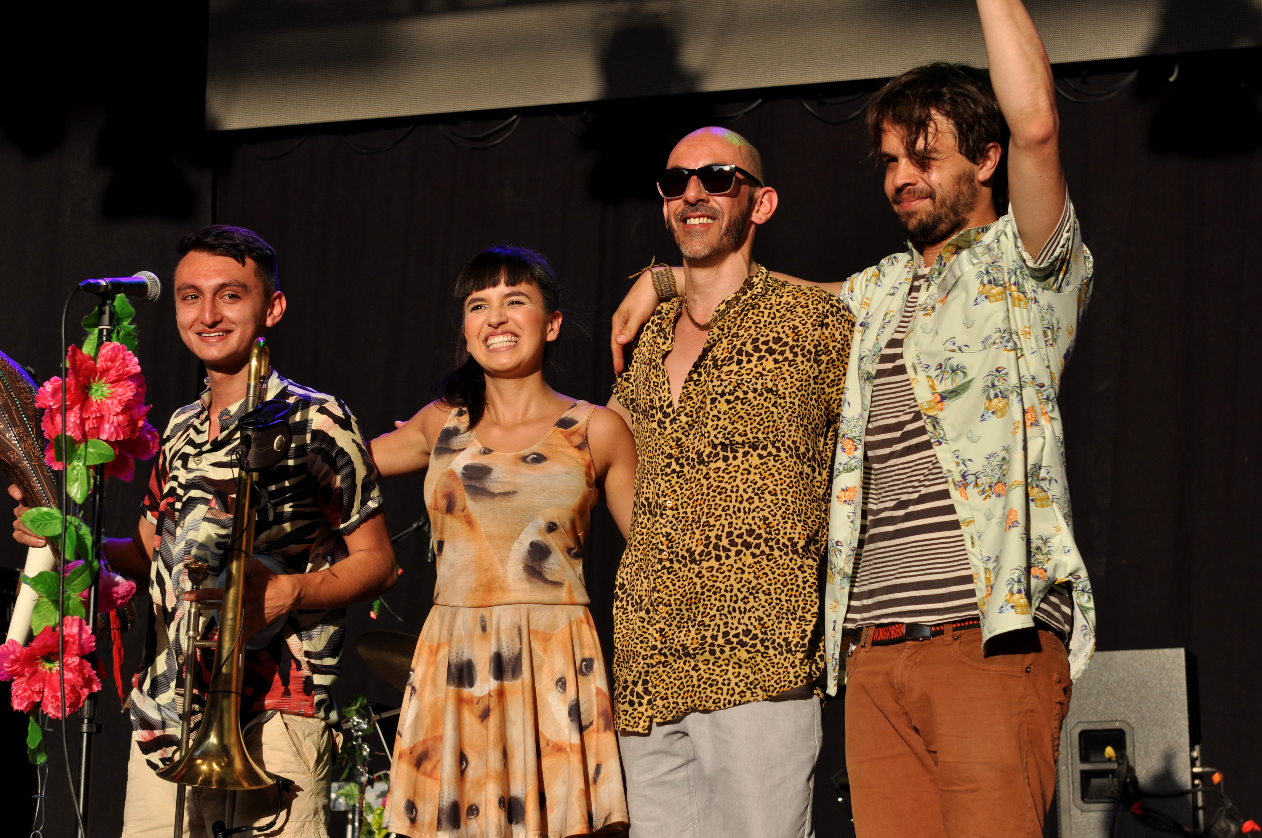 Pedrina y Rio (COL), World Music Festival Horizonte 2015, Fortress Ehrenbreitstein, Koblenz, Rhineland-Palatinate, Germany Festivalsommer This photo was created with the support of donations to Wikimedia Deutschland in the context of the CPB project "Festival Summer".